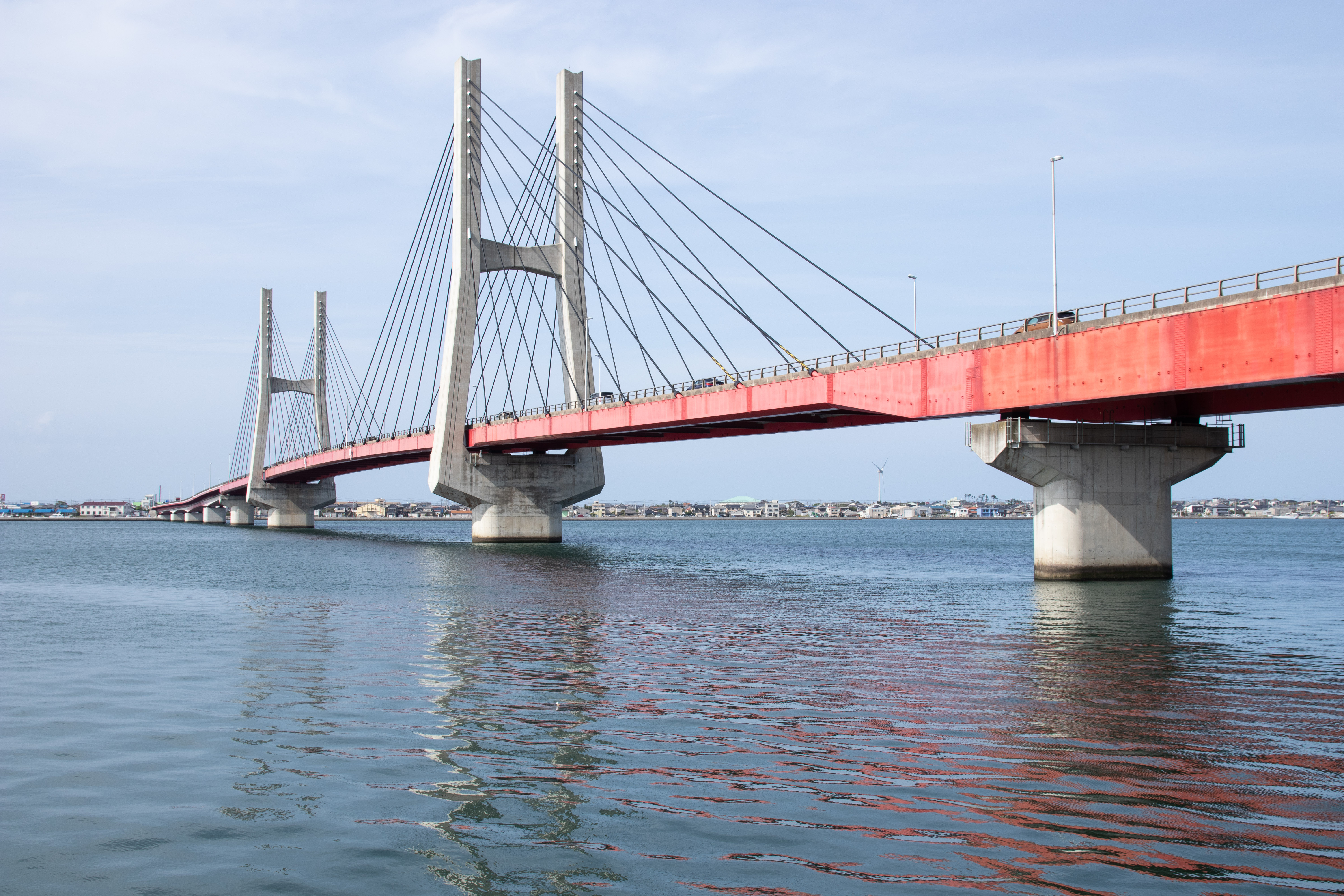 Choshi Bridge, Chiba and Ibaraki Prefectures, Japan Canon EOS 80D + Sigma 17-70mm F2.8-4 DC Macro OS HSM